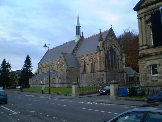 Holy Trinity Scottish Episcopal Church